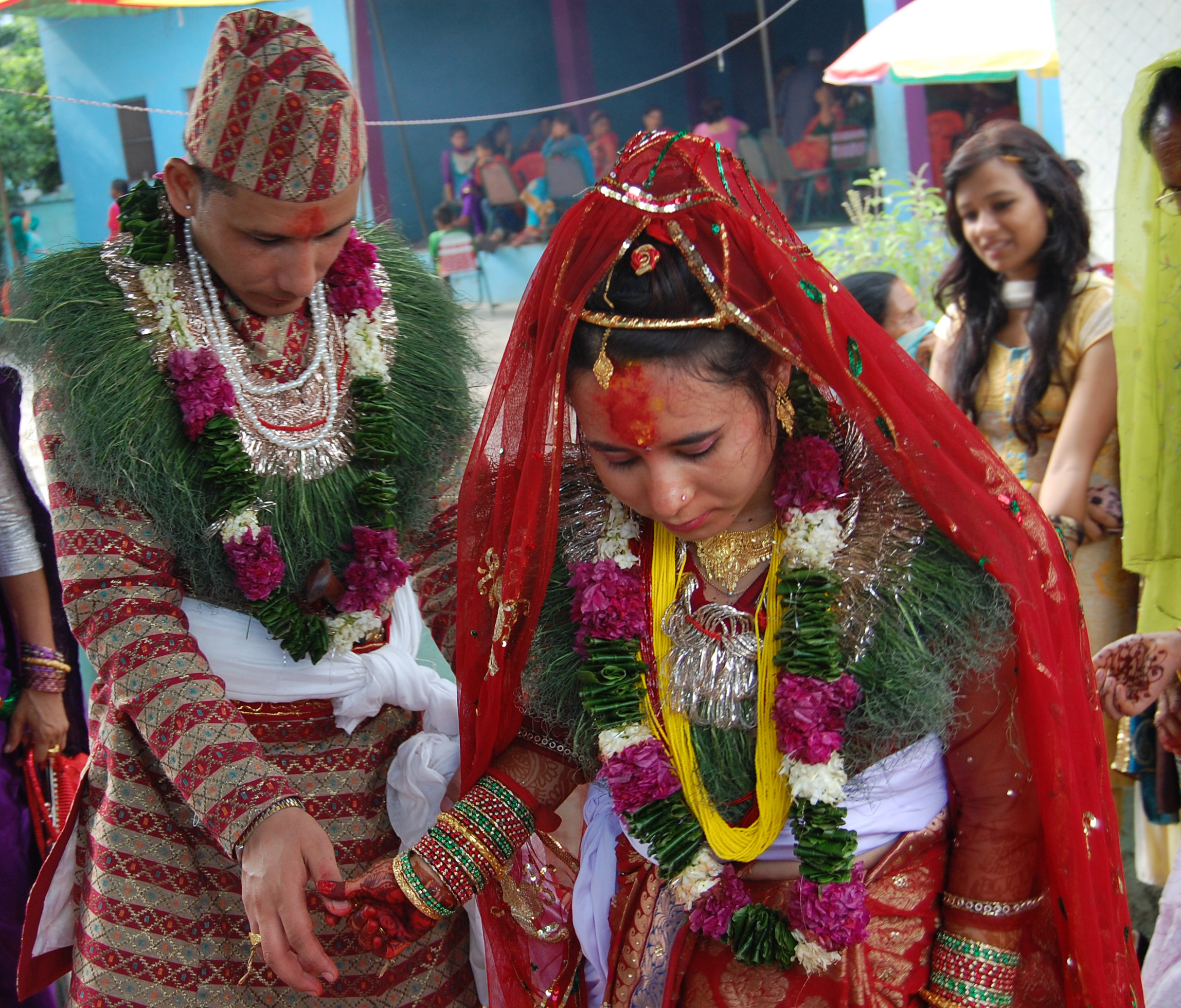 A Nepali couple during marriage.